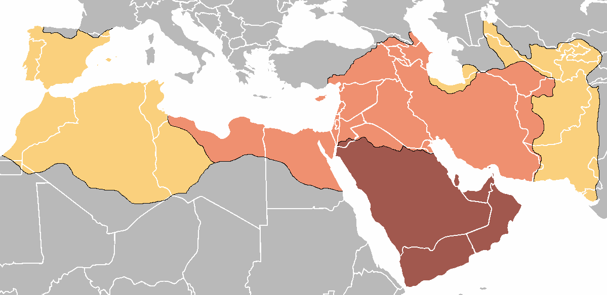 Age of the Caliphs